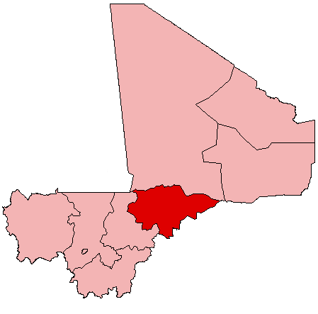 Map of Mali showing Mopti Region; created with the GIMP. Made by User:Acntx.